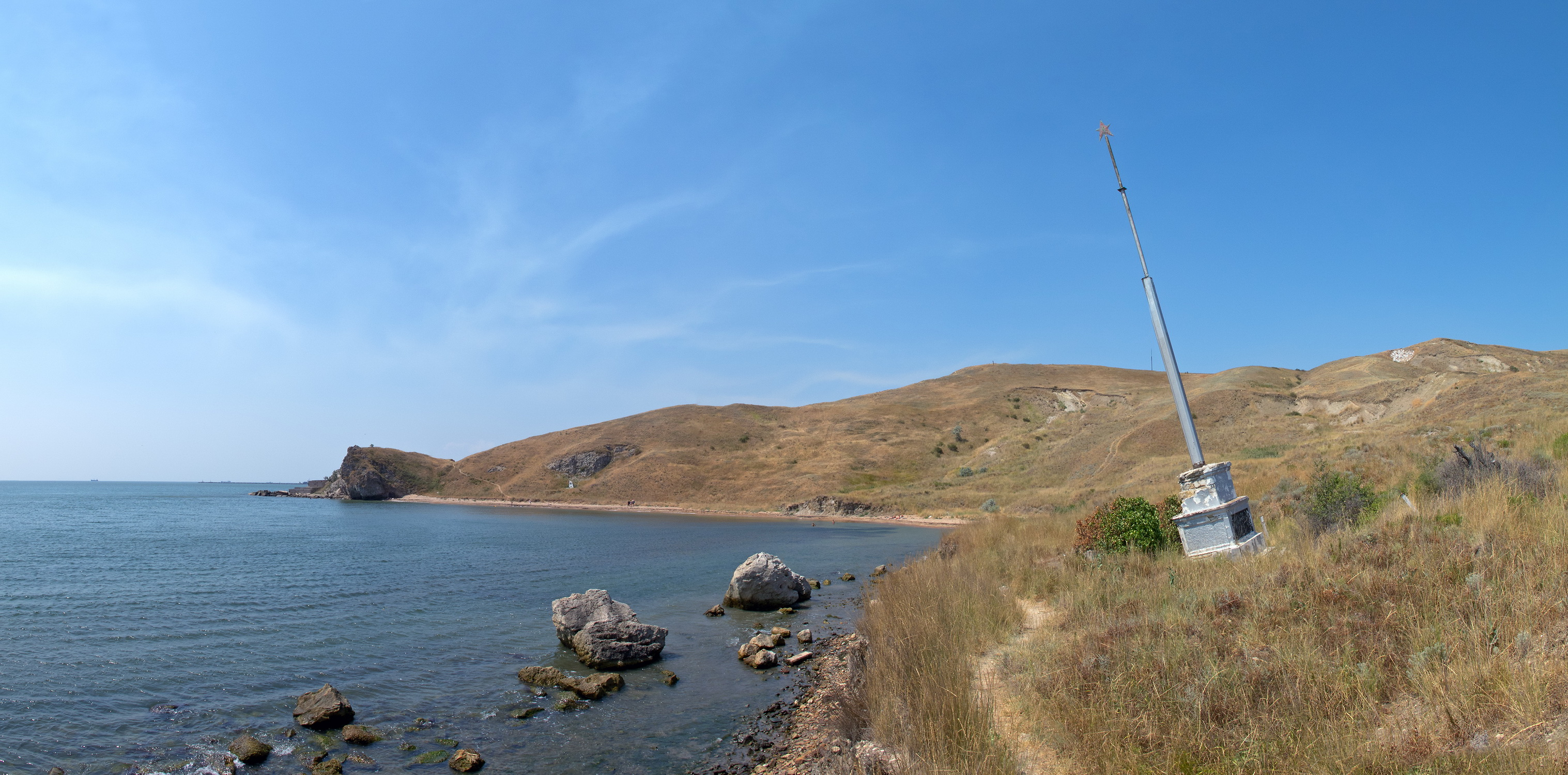 Golubinaya bay near Cape Fonar (Kerch, Ukraine) and World War-II obelisk damaged by a land-slide